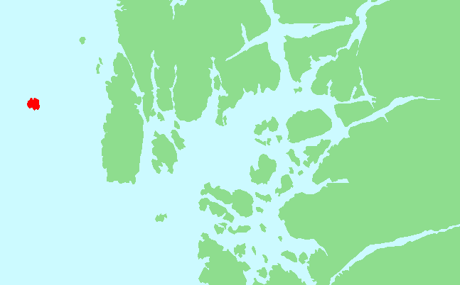 Locator map of Utsira, Norway